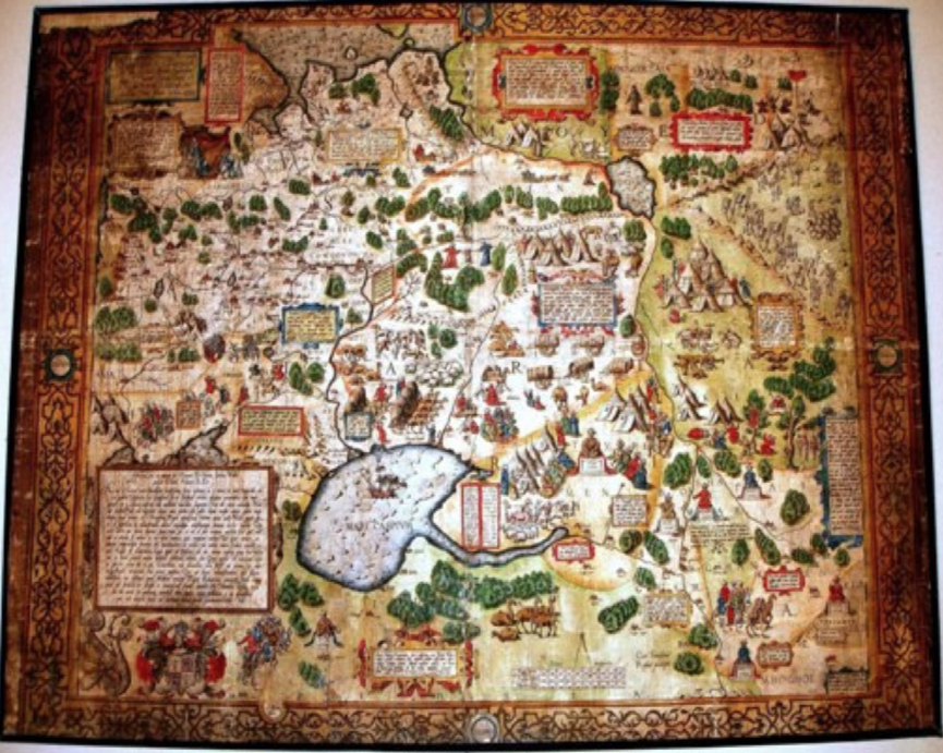 Original Map of Russia (1562) by Anthony Jenkinson (1525–1611) – described by Krystyna Szykuła